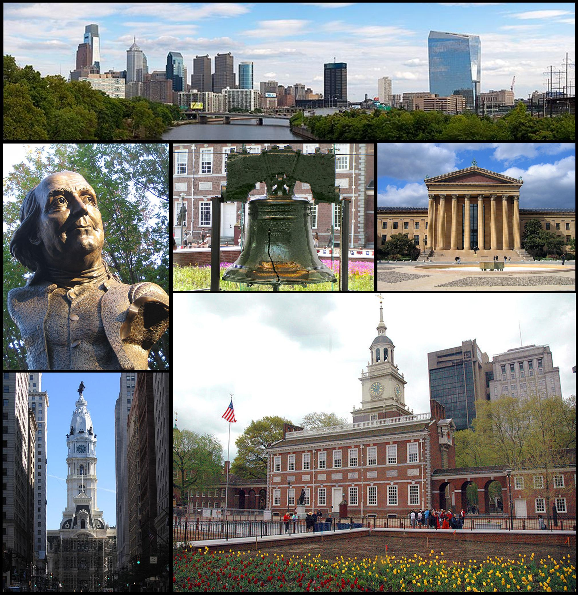 This montage was created from images already available on Wikicommons.